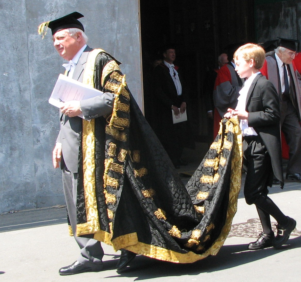 The Lord Patten of Barnes, Chancellor of the University of Oxford, exiting the Sheldonian theatre and passing between Hertford college and the Bodleian library after Encaenia 2009